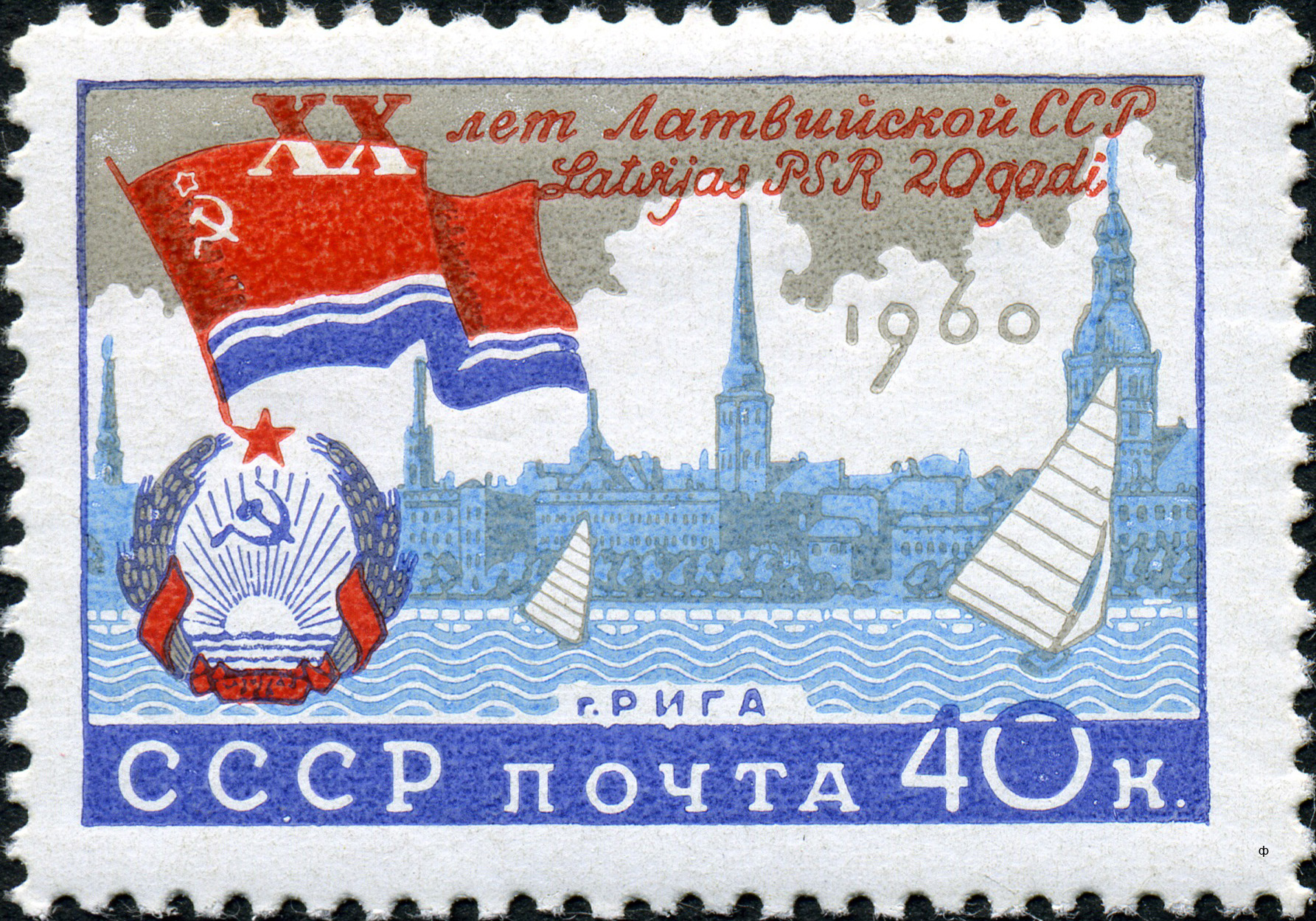 1960 USSR postage stamp, 20th anniversary of Latvian SSR, Riga, 40 kop.